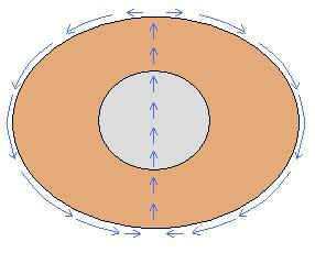 sport